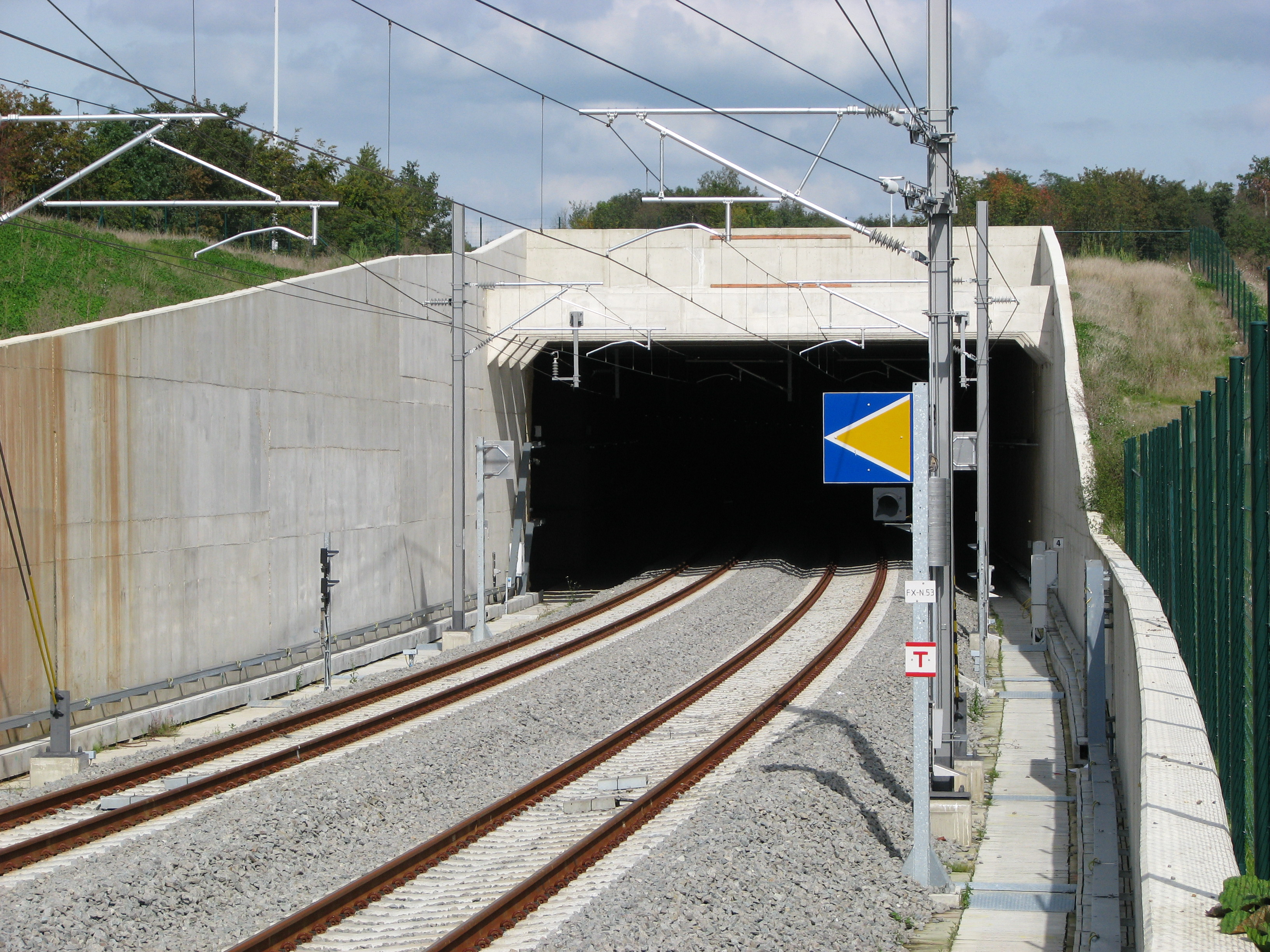 Western portal of the tunnel near Walhorn, Belgium, Highspeedline (HSL) 3 between Aachen and Liège.